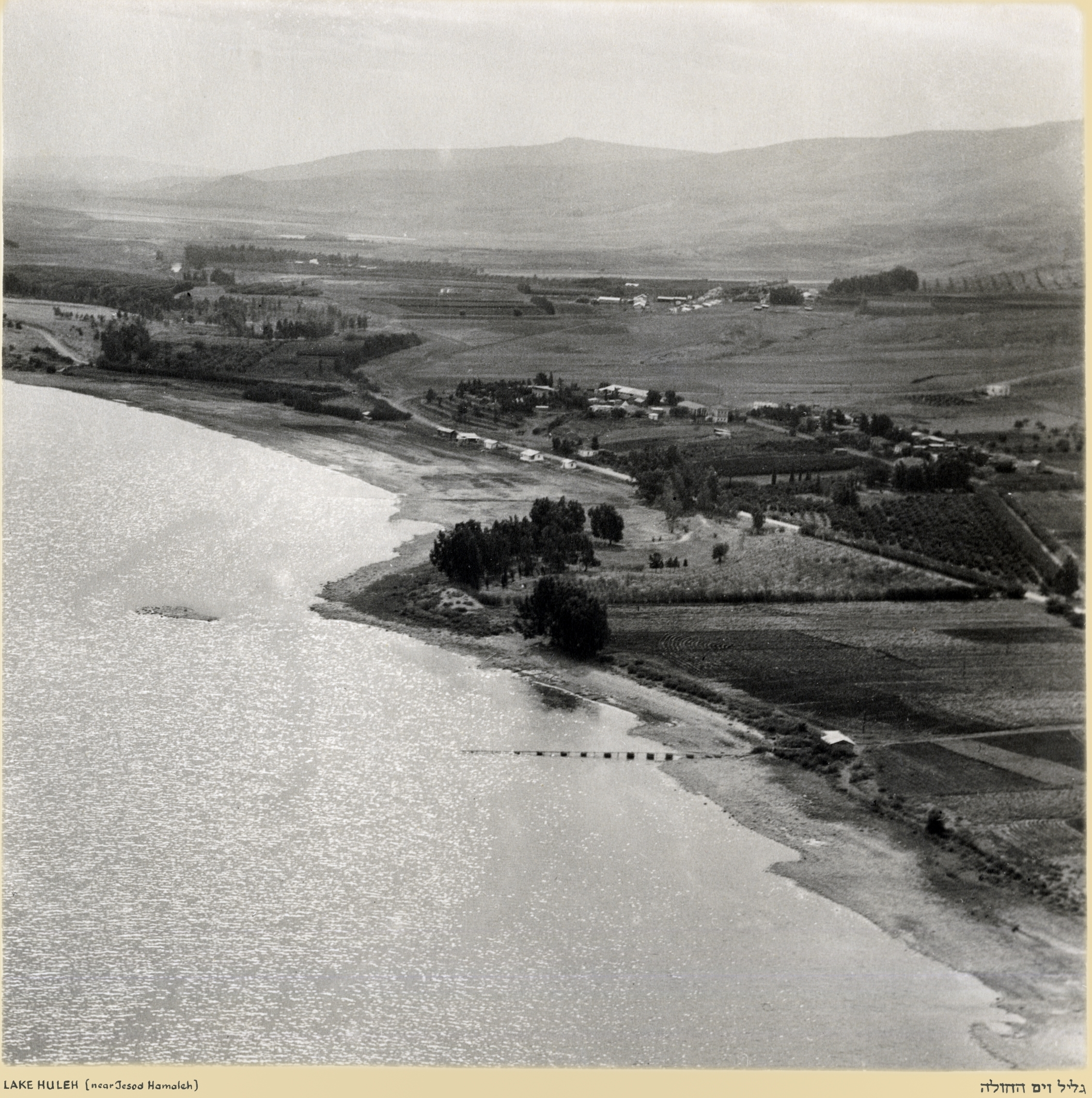 Z. Kluger. Erez Israel from the air - 1937-38